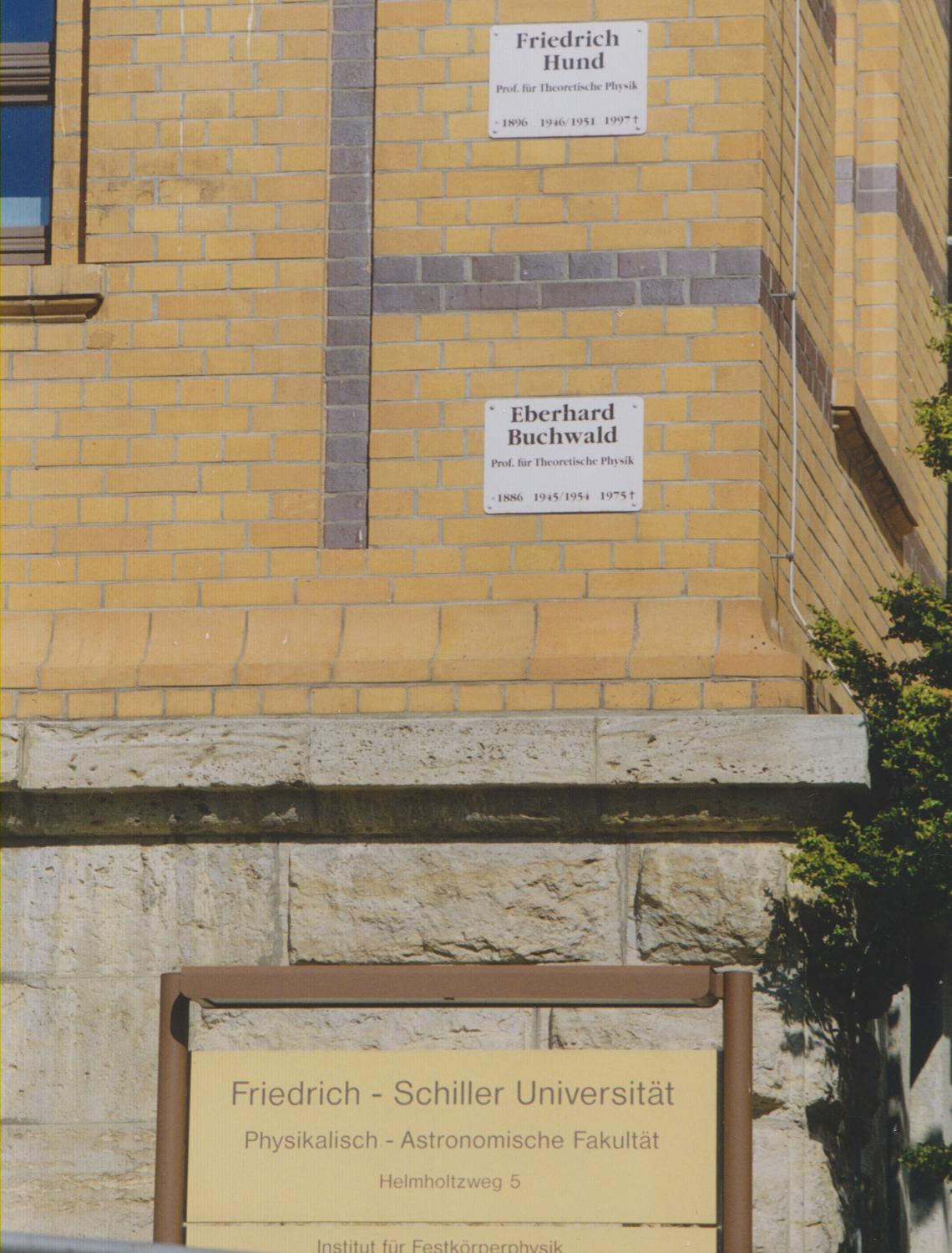 Commemorative tables for the physicists Friedrich Hund and Eberhard Buchwald at Jena, Helmholtzweg 5